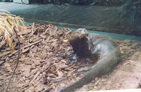 Giant Otter in Dortmund Zoo, Germany.